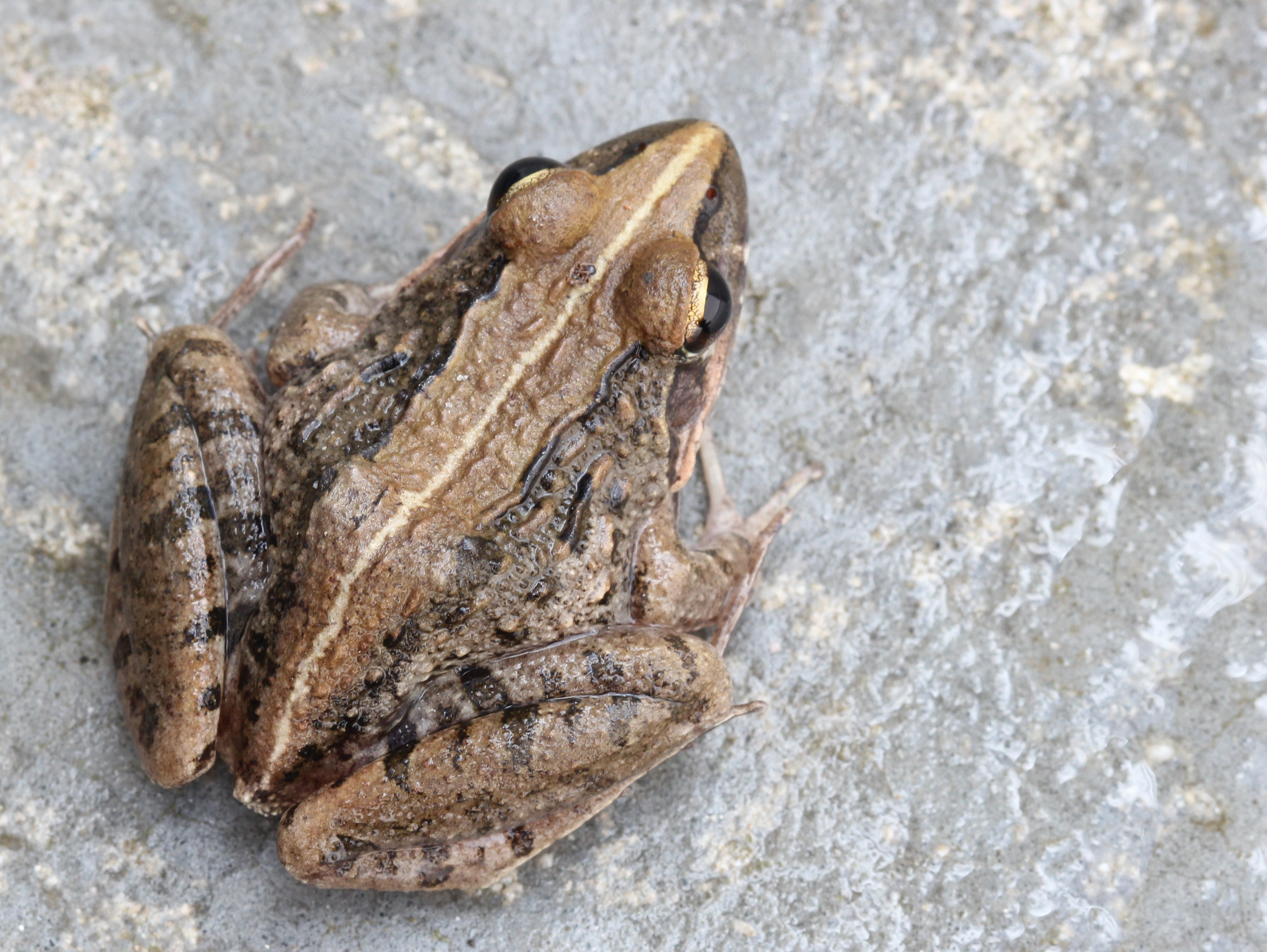 Strongylopus grayi Dorsal colour stripe variant